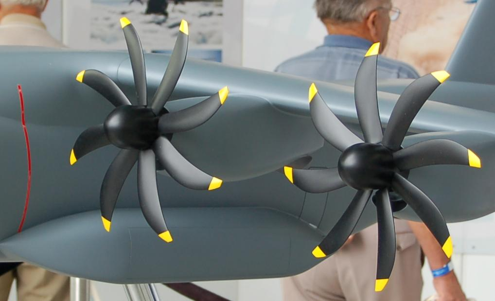 Model of an Airbus A400M at an EADS Exhibition; detail showing propellers